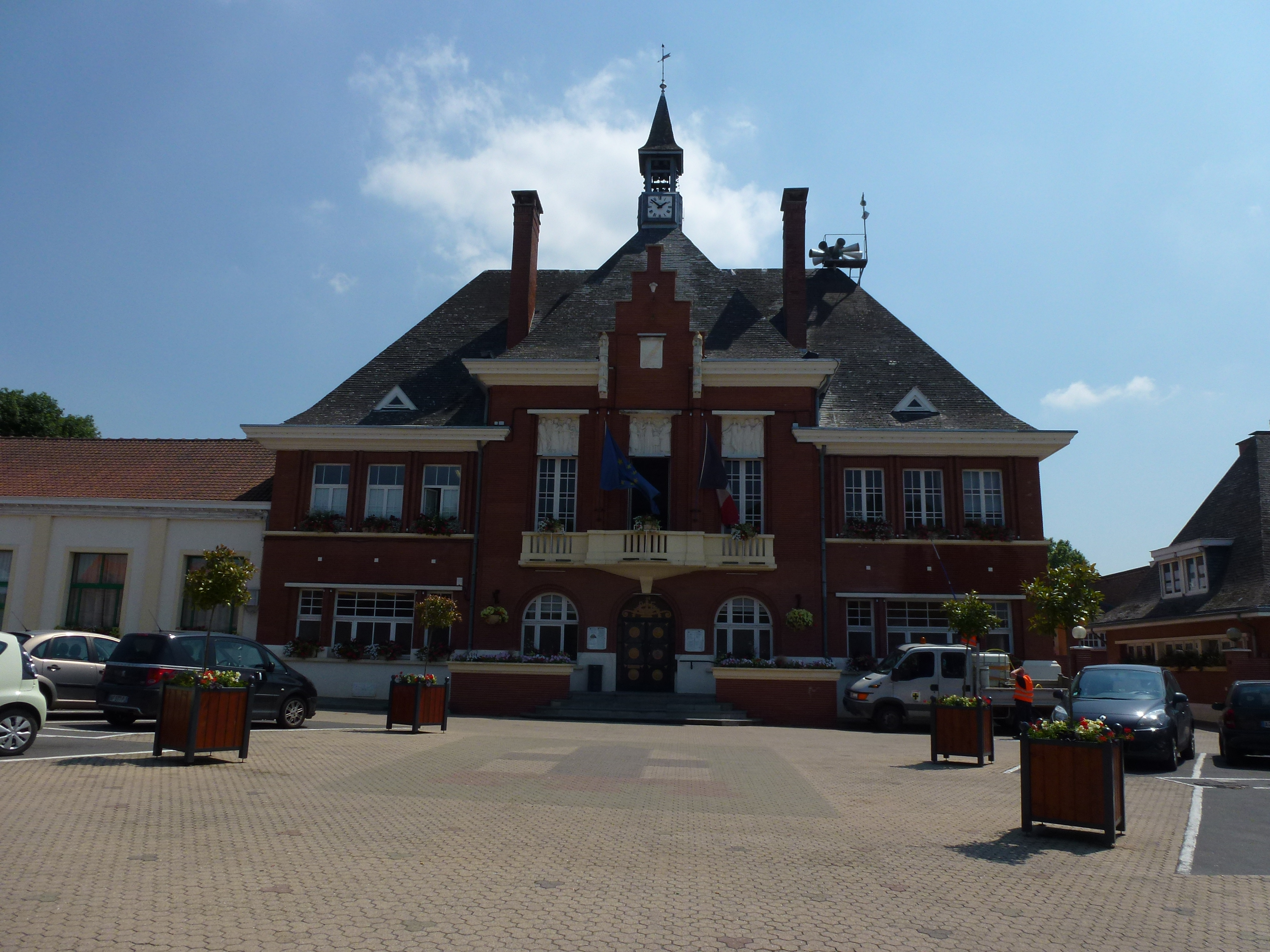 Marly (Nord, Fr) mairie